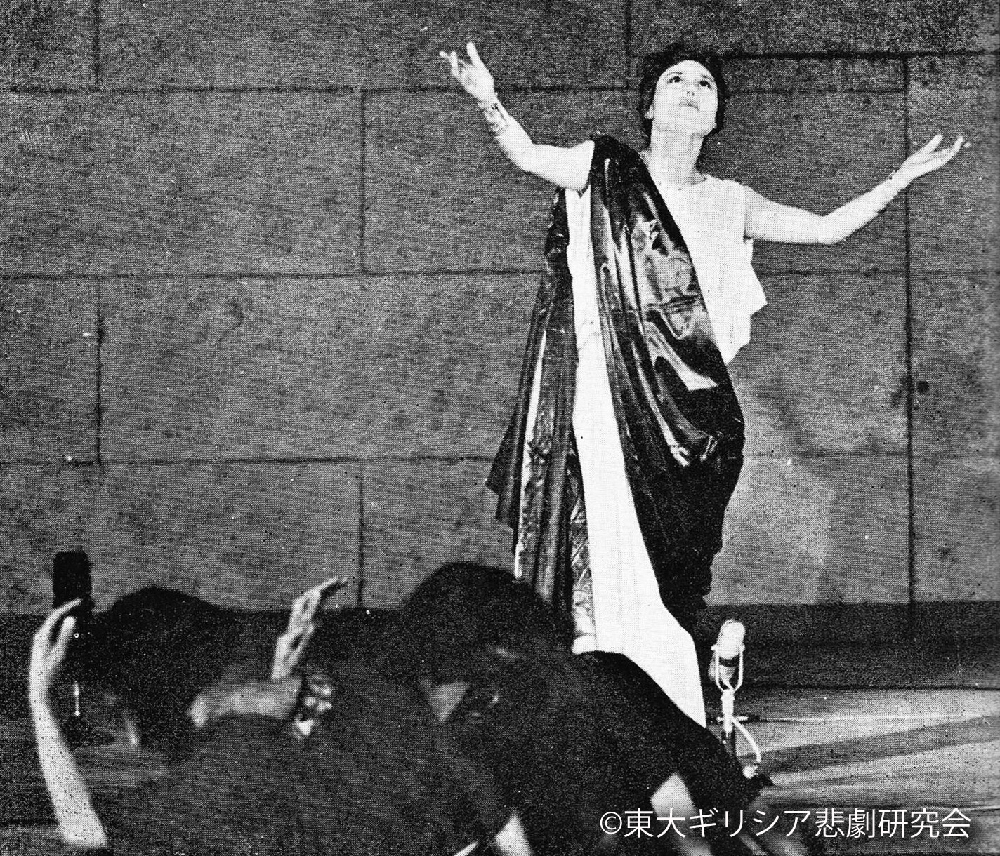 Greek Tragedy 1959 Tokyo University Greek Tragedy Institute-c